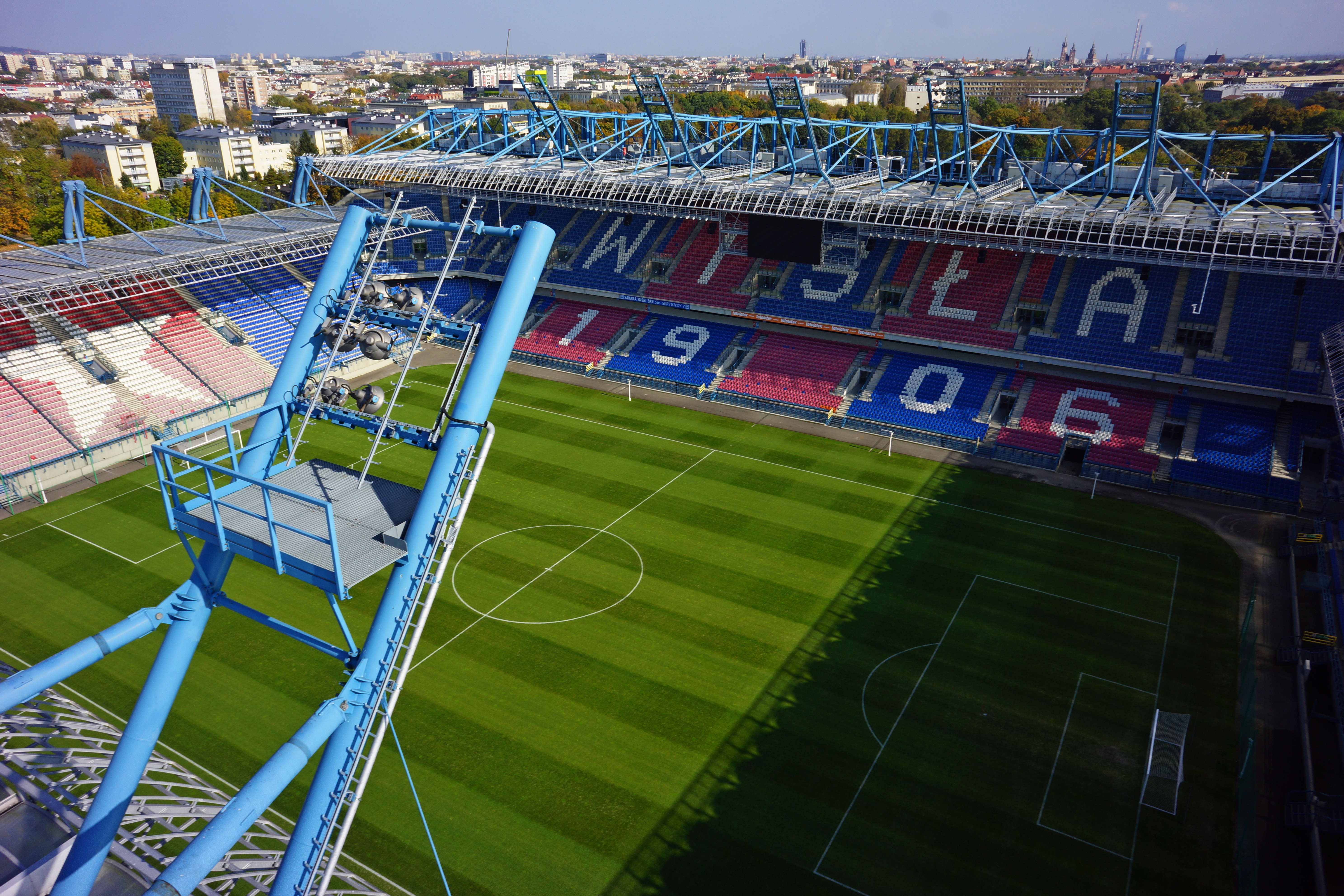 Aerial view of Wisla Krakow football stadium